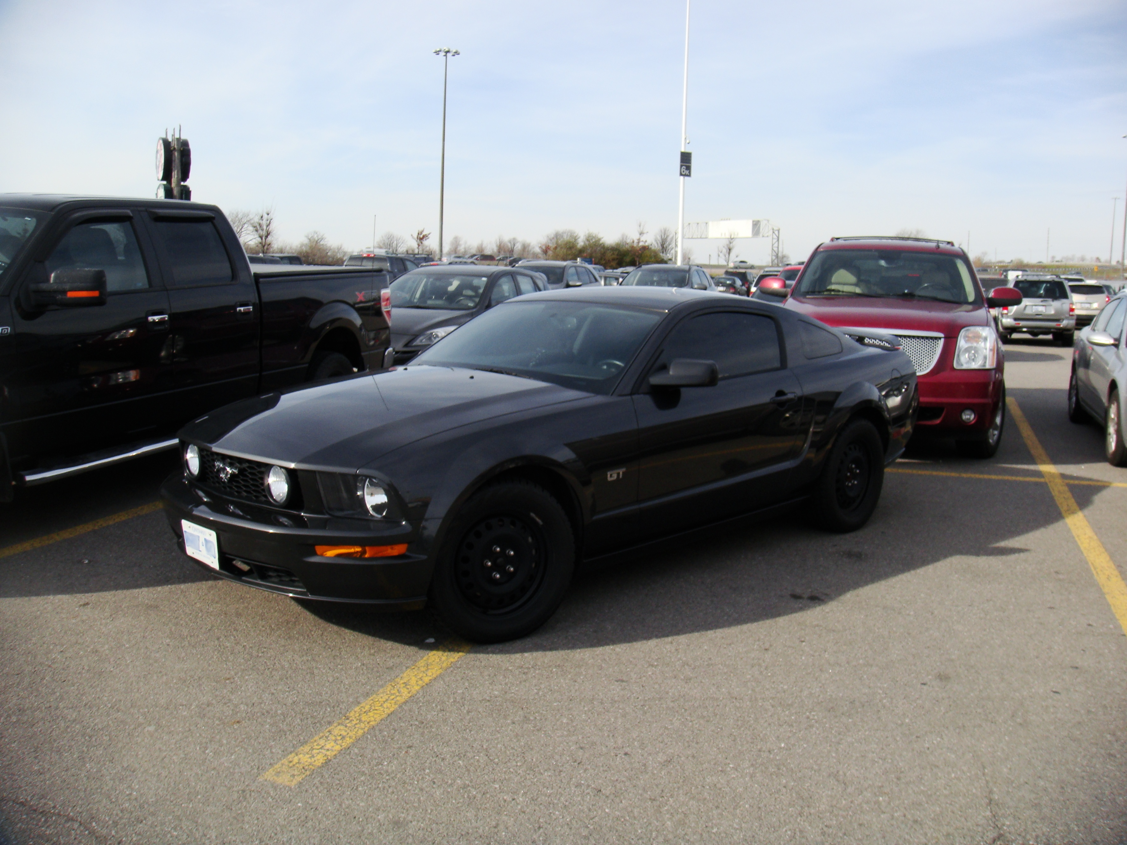 A Mustang GT illegally occupying two parking spaces at Vaughan Mills mall, Ontario